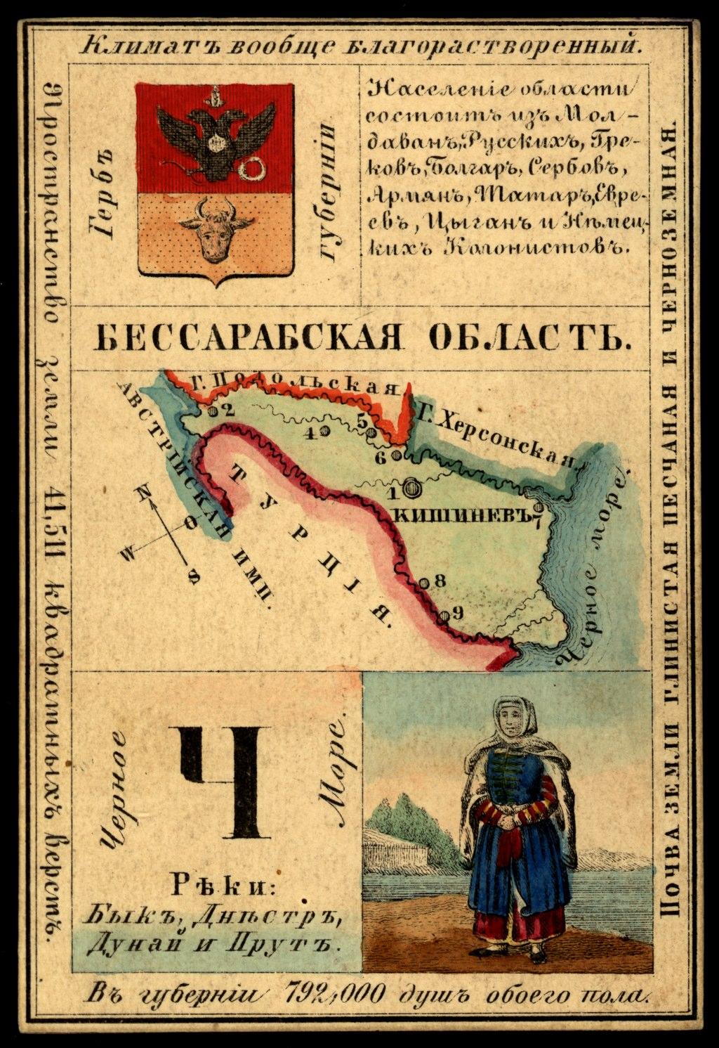 This card is one of a souvenir set of 82 illustrated cards–one for each province of the Russian Empire as it existed in 1856. Each card presents an overview of a particular province’s culture, history, economy, and geography. The front of the card depicts such distinguishing features as rivers, mountains, major cities, and chief industries. The back of each card (shown here) contains a map of the province, the provincial seal, information about the population, and a picture of the local costume of the inhabitants. The province of Bessarabia depicted on this card roughly corresponds to the territory of present-day Moldova.